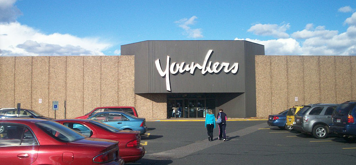 Younkers store at Westwood Mall in Marquette, Michigan.